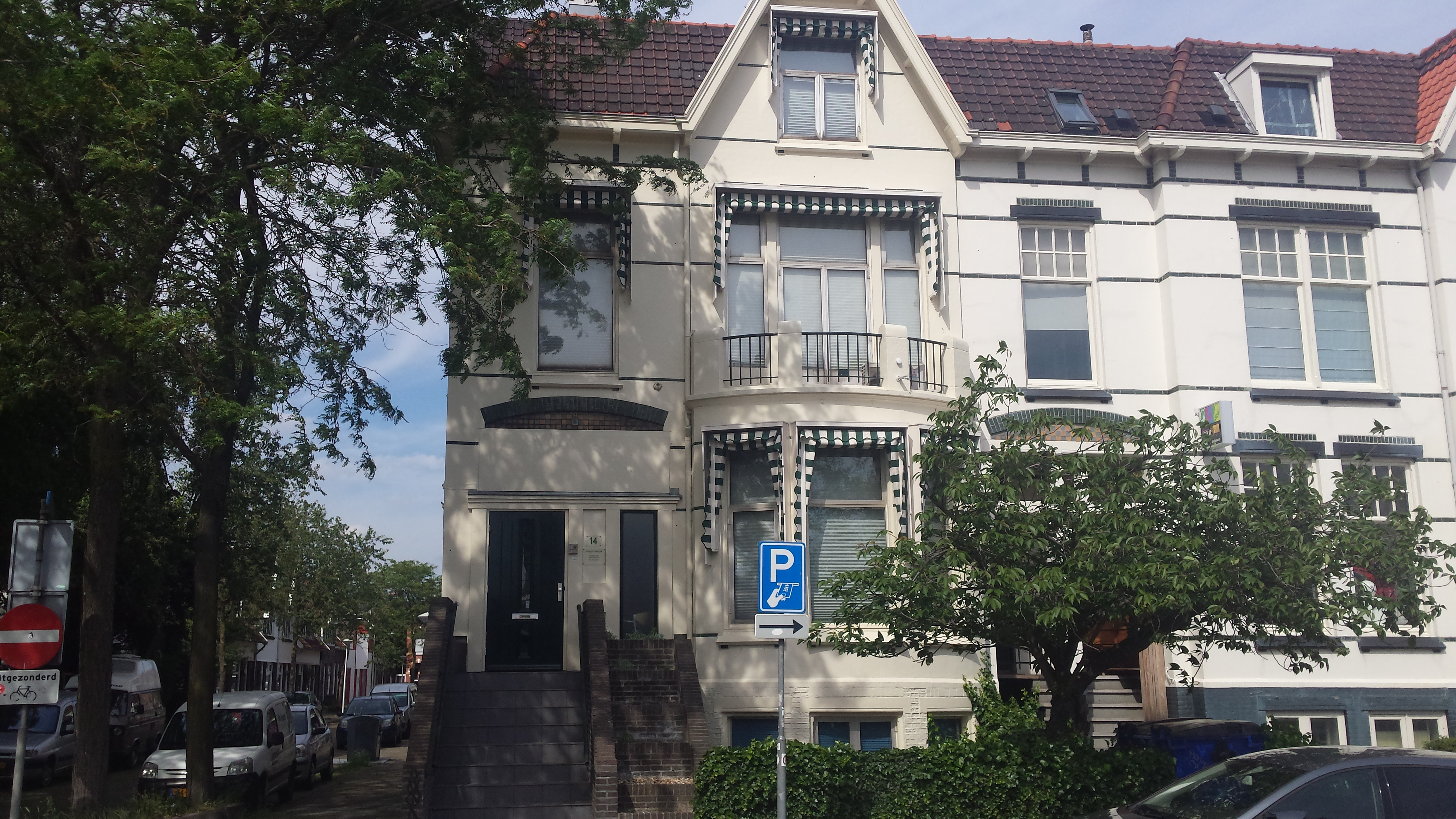 Abortion clinic "Stimezo Zwolle, Centre for Birth Regulation", Oosterlaan 14, Zwolle, Netherlands.